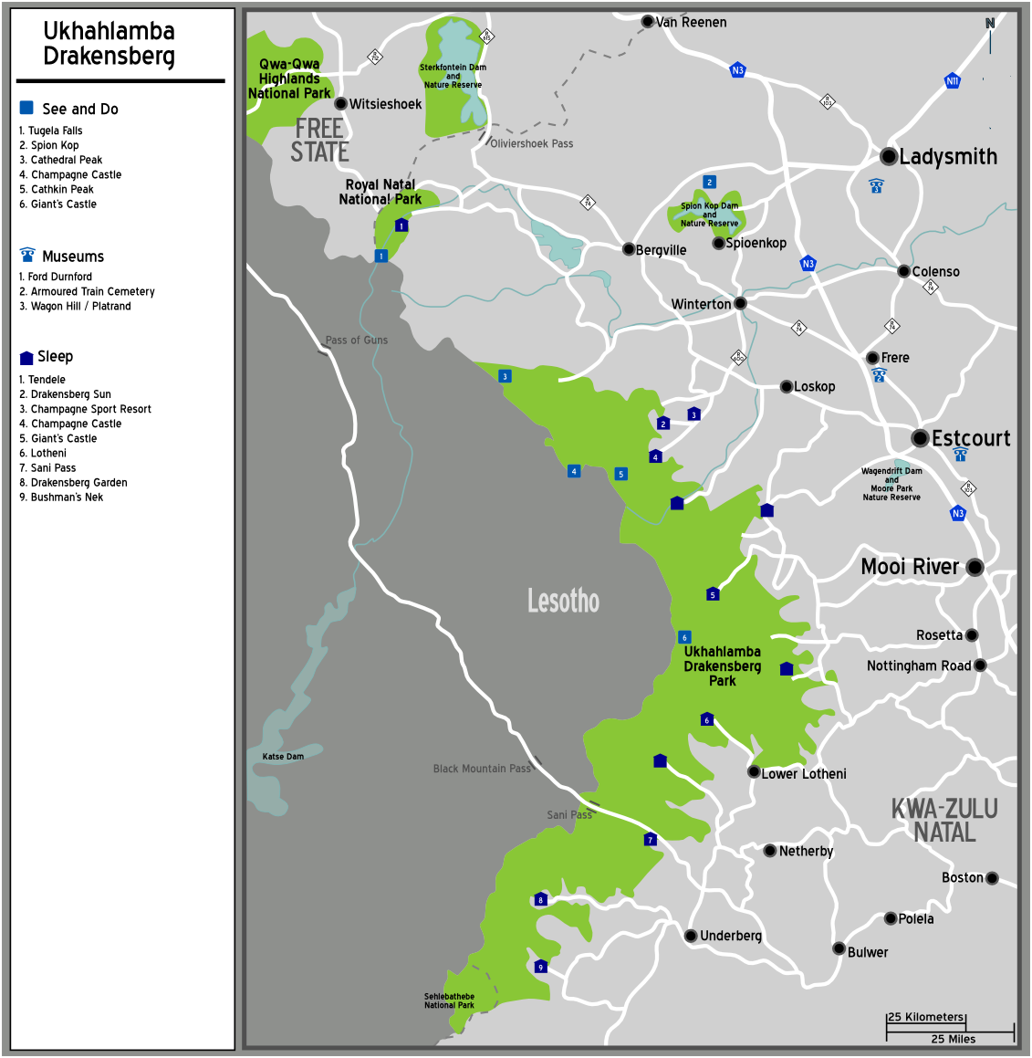 Map of Ukhahlamba Drakensberg region, KwaZulu-Natal, South Africa.